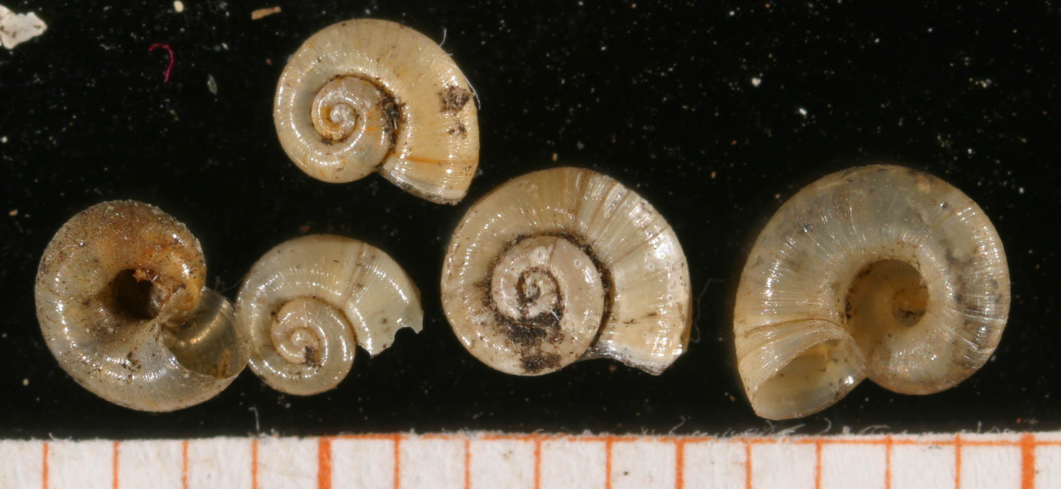 Photo of Valvata macrostoma. Scale in mm. Locality: Germany: Schleswig-Holstein, Ratzeburger See near Rothenhusen. Date: 07-06-1987.